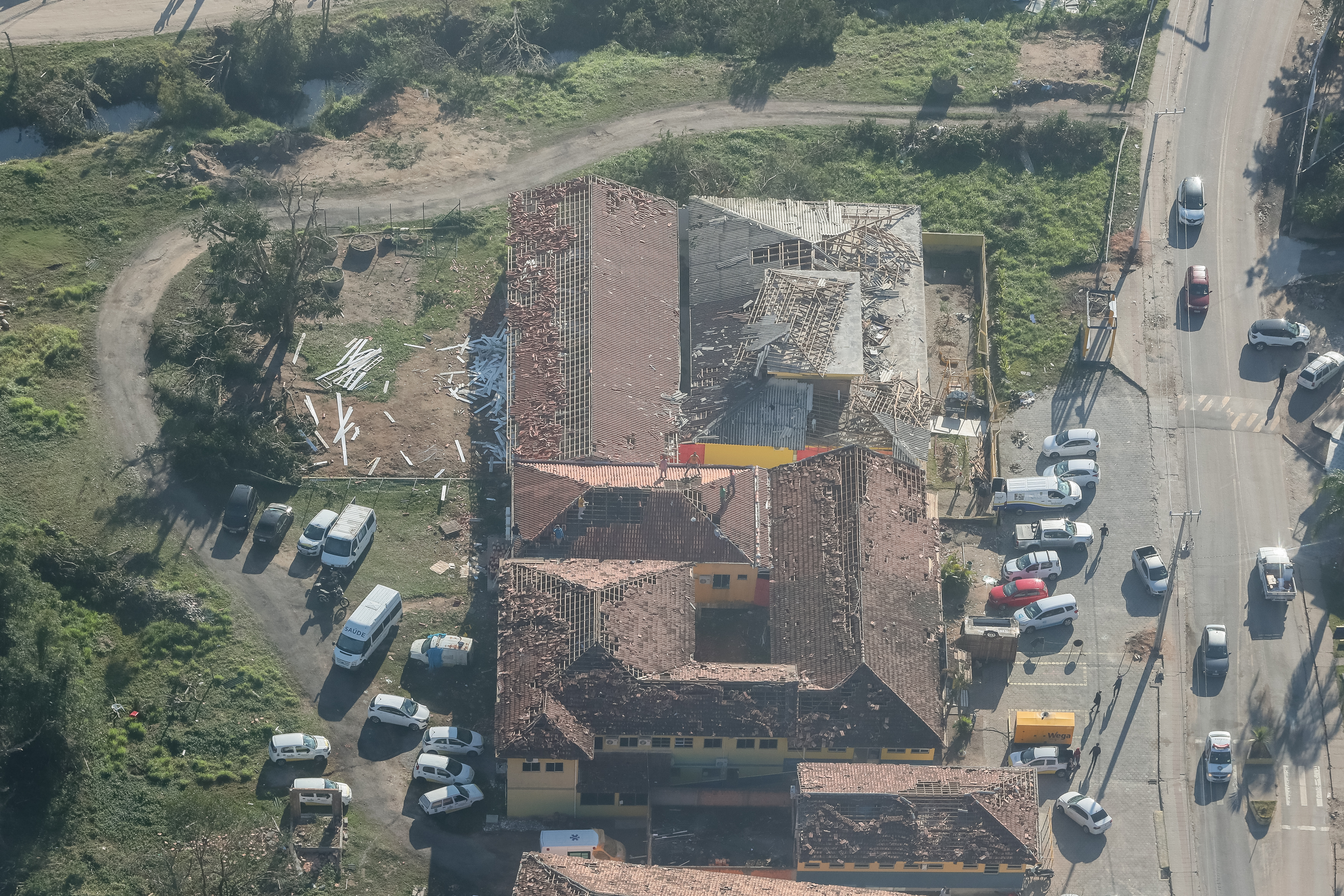 (Florianópolis - SC, 04/07/2020) Partida para Sobrevoo sobre áreas atingidas por ciclone. Foto: Isac Nóbrega/PR